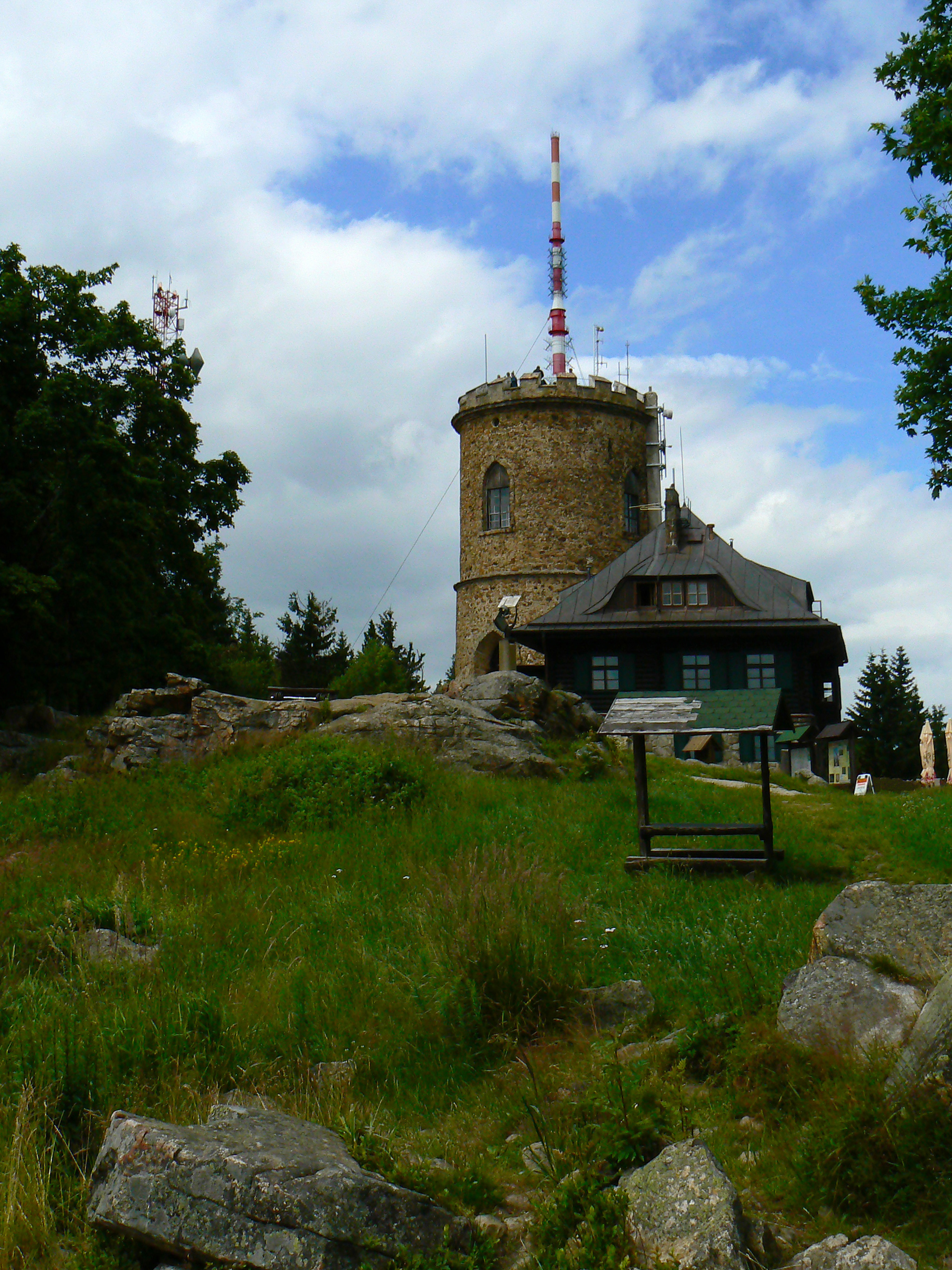 Joseph Tower on top of Kleť, Czech Republic Česky: Josefova věž na vrcholku Kleti